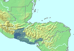 Current area of Xincan languages (dark blue), and area with Xincan toponymy (clear blue). A small family of Mesoamerican languages, now extinct, once spoken by the indigenous Xinca people in present day southeastern Guatemala. C. 13th century most of western El Salvador had been conquered by Pipil people. after Lyle Campbell (Historical Linguistics, 1998).